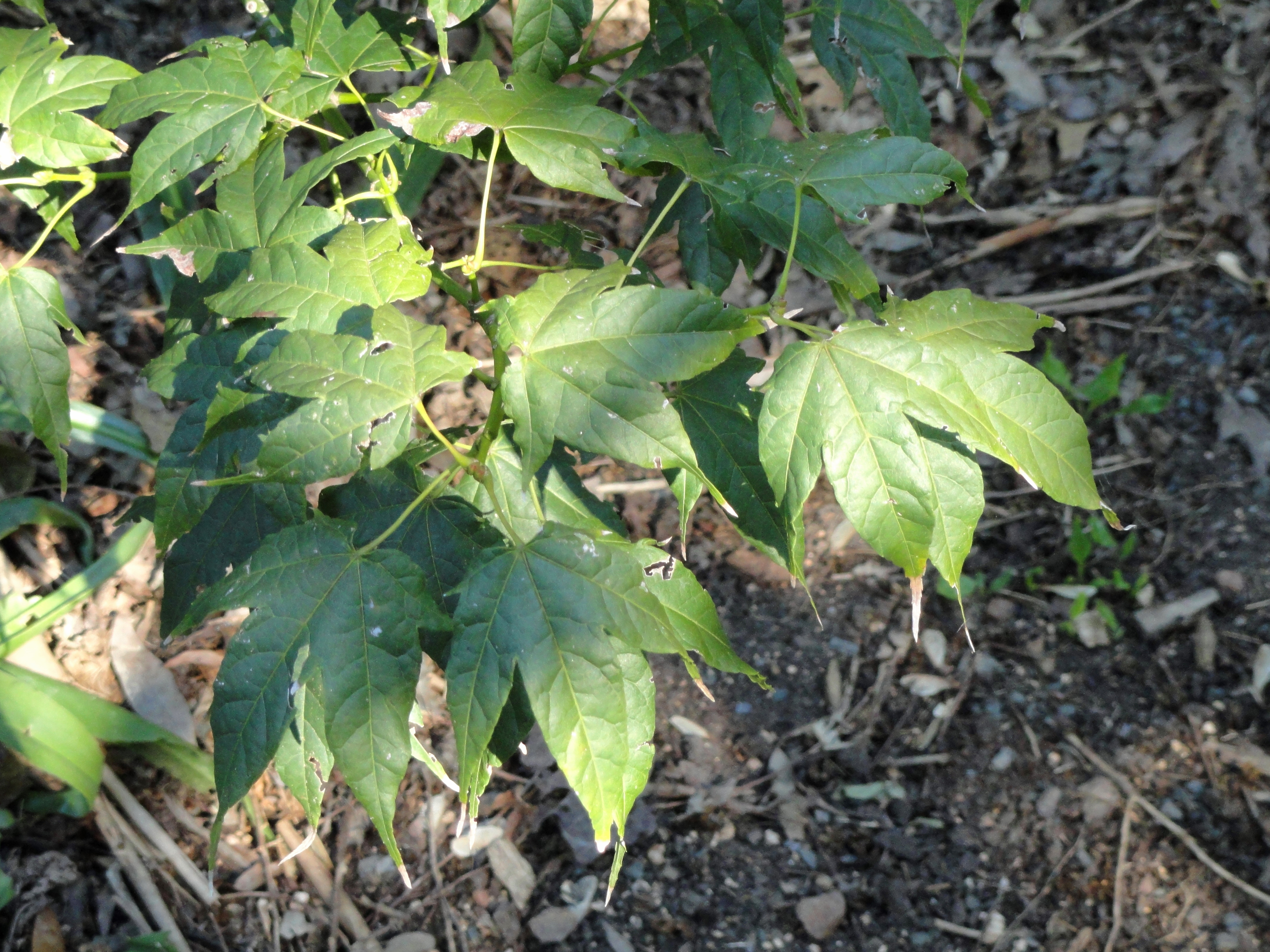 Acer elegantulum specimen in the J. C. Raulston Arboretum (North Carolina State University), 4415 Beryl Road, Raleigh, North Carolina, USA.